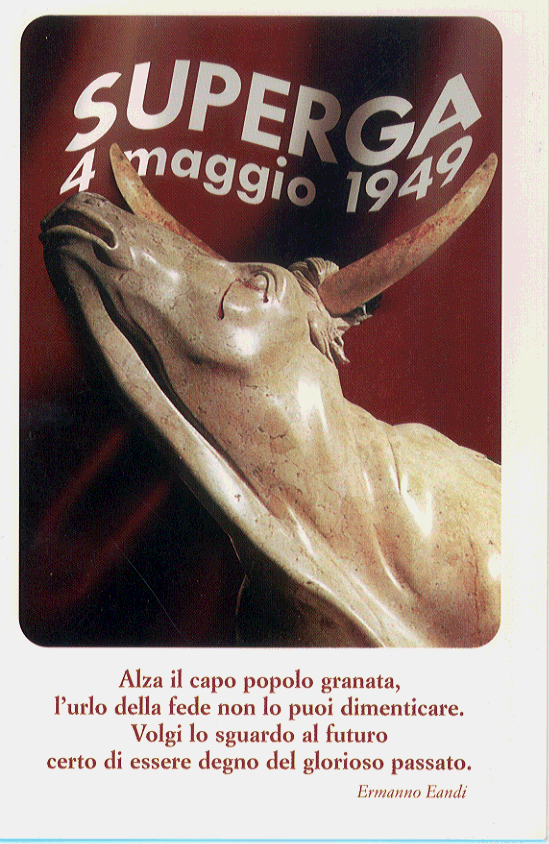 Pictures of Ermanno Eandi in memory tragedy of Superga where is dead the "grande Torino"